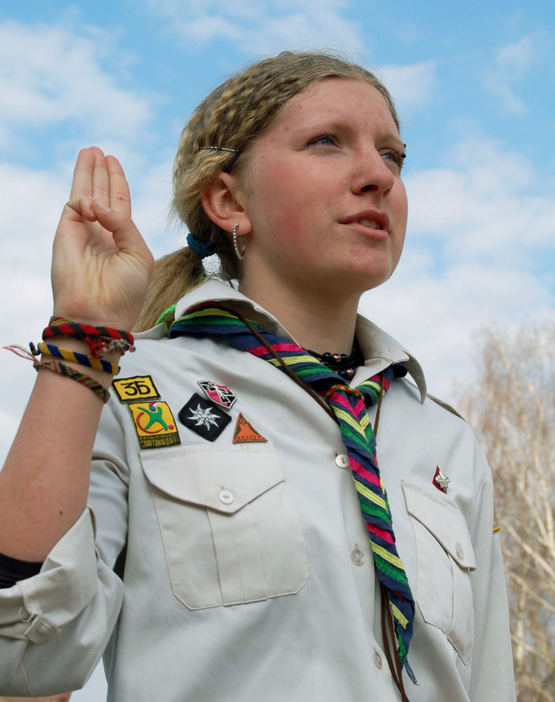 Ukrainian girl scout from Plast gives a Scout Salute.